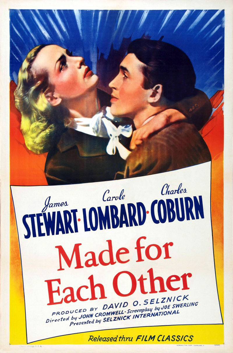 Poster for the American film Made for Each Other (1939).